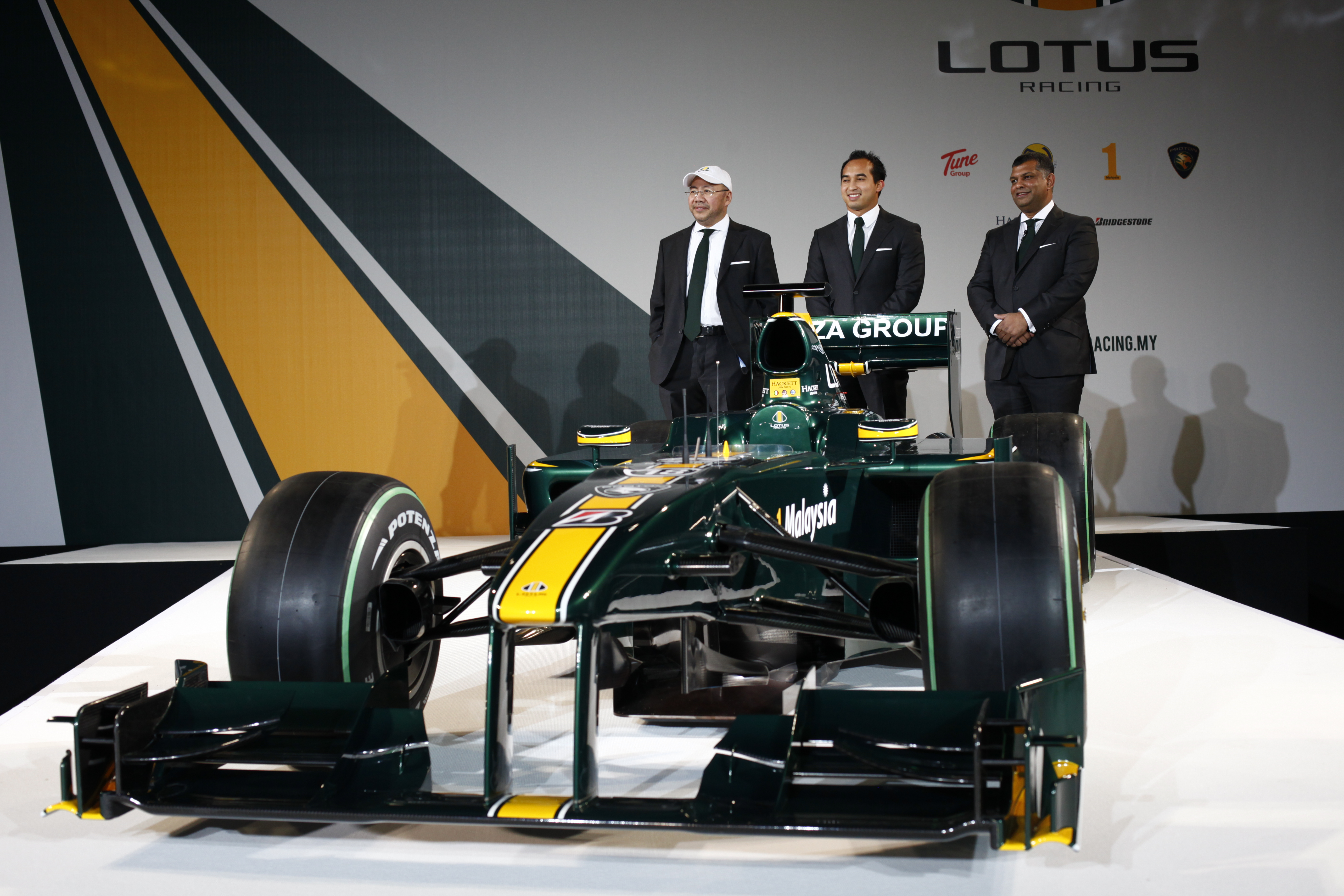 Lotus Racing car launch in London 2010